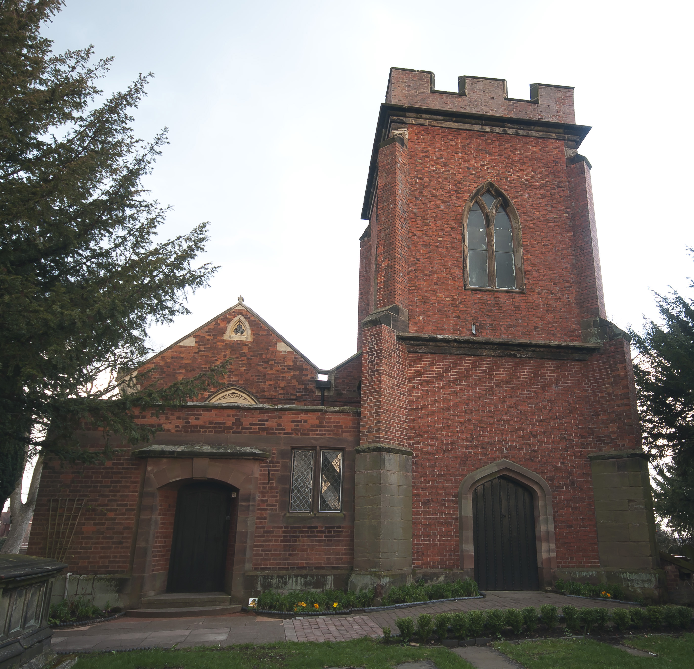 Christchurch parish church, Burntwood, Staffordshire, seen from the west